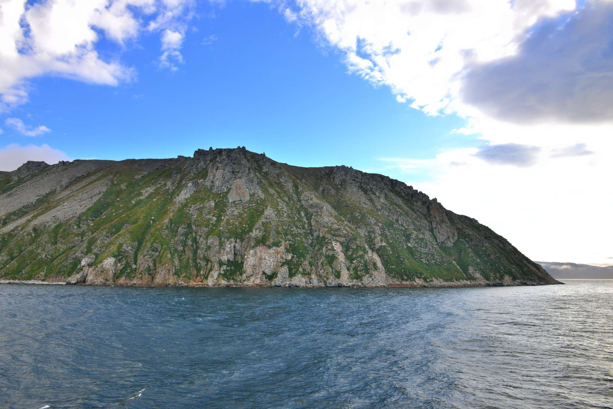 Big Diomede Island (Bering Strait, Russia; 65°47‘36‘‘N, 169°3‘54‘‘W)